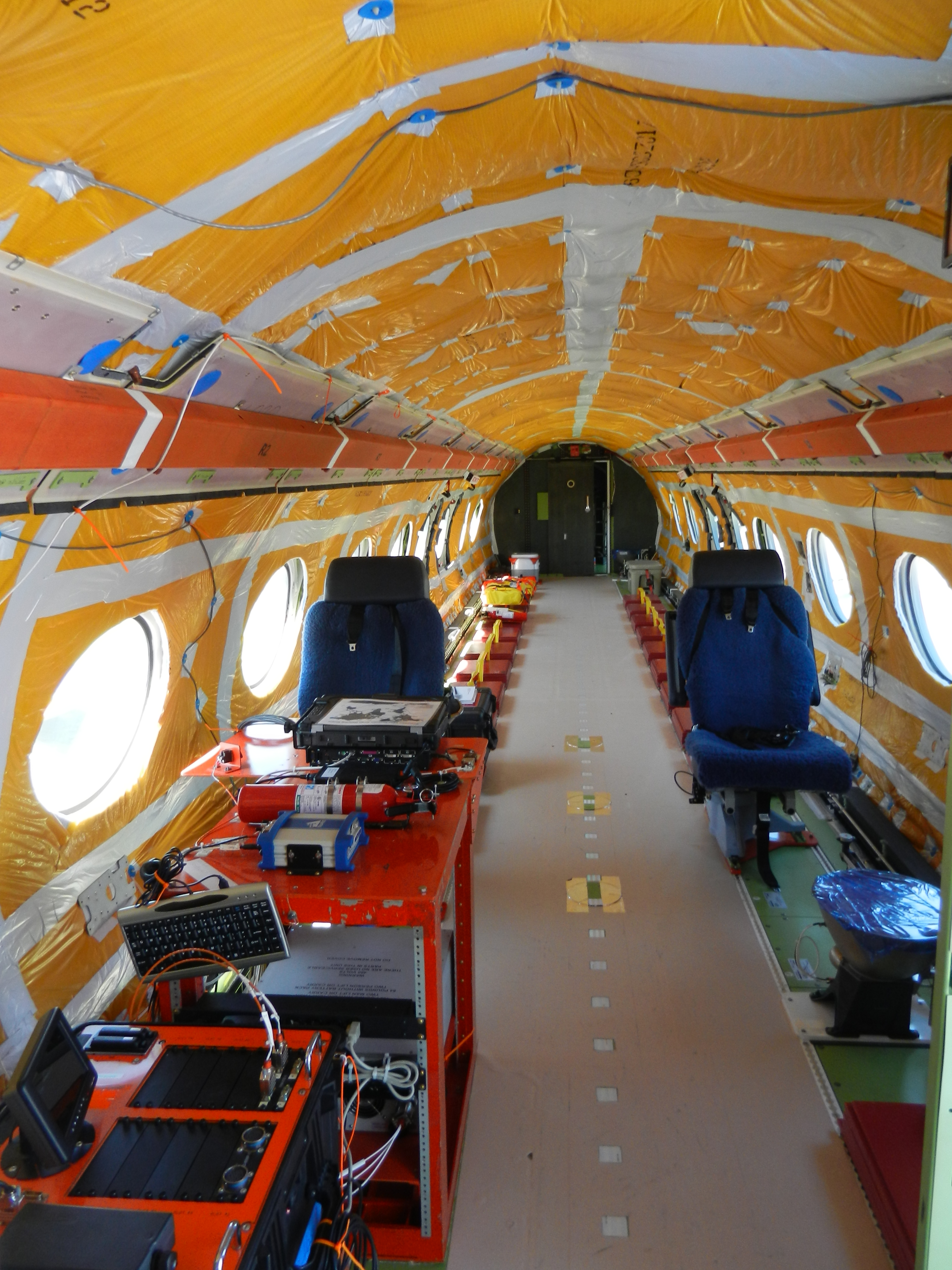 Cabin of a Gulfstream G650 prototype